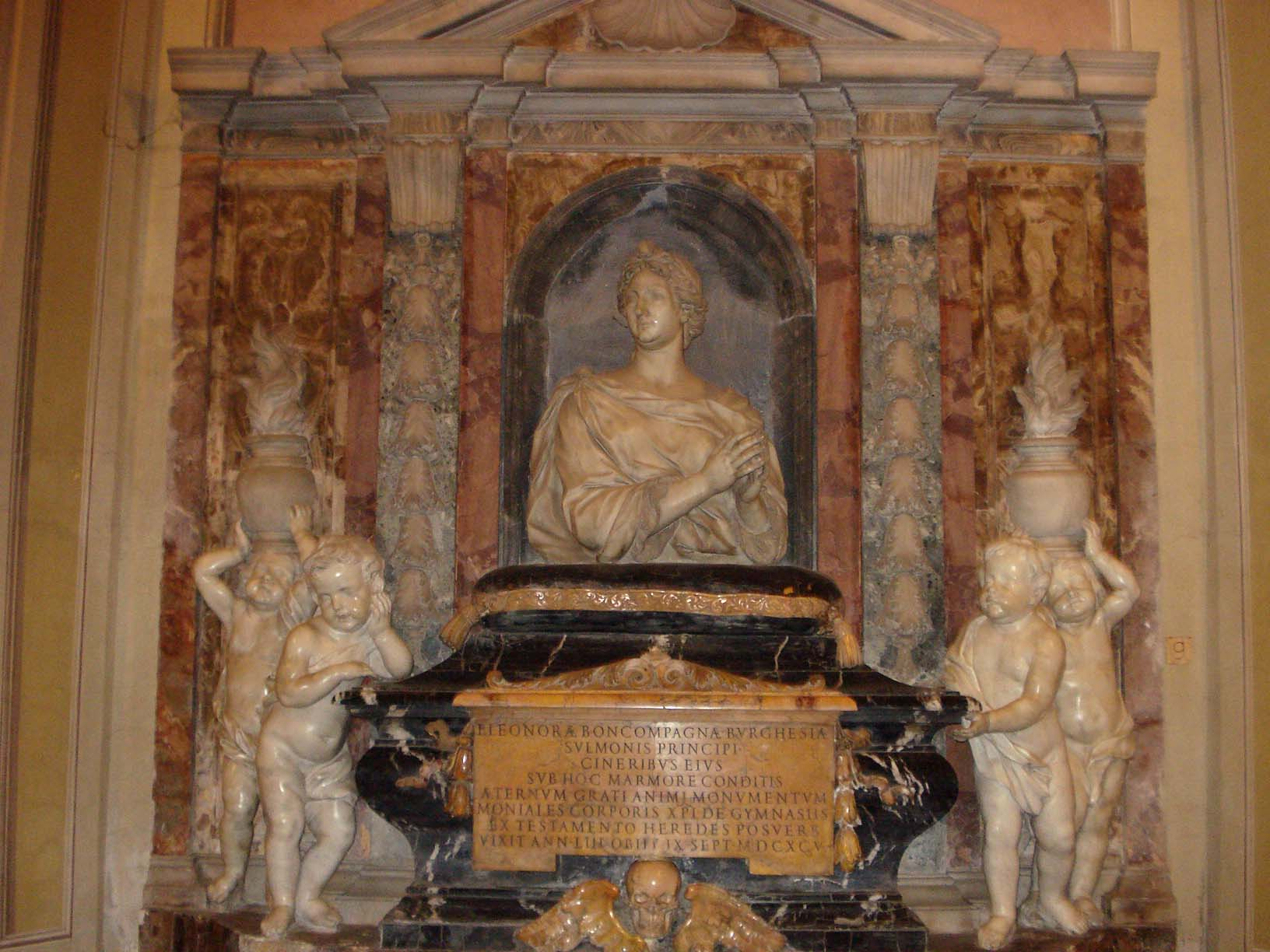 Leonora Buoncompagni's tomb